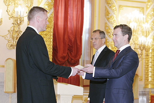 THE KREMLIN, MOSCOW. Presentation by foreign ambassadors of their letters of credence. Ambassador of the Republic of Latvia Edgars Skuja presents his letter of credence to the President of Russia.